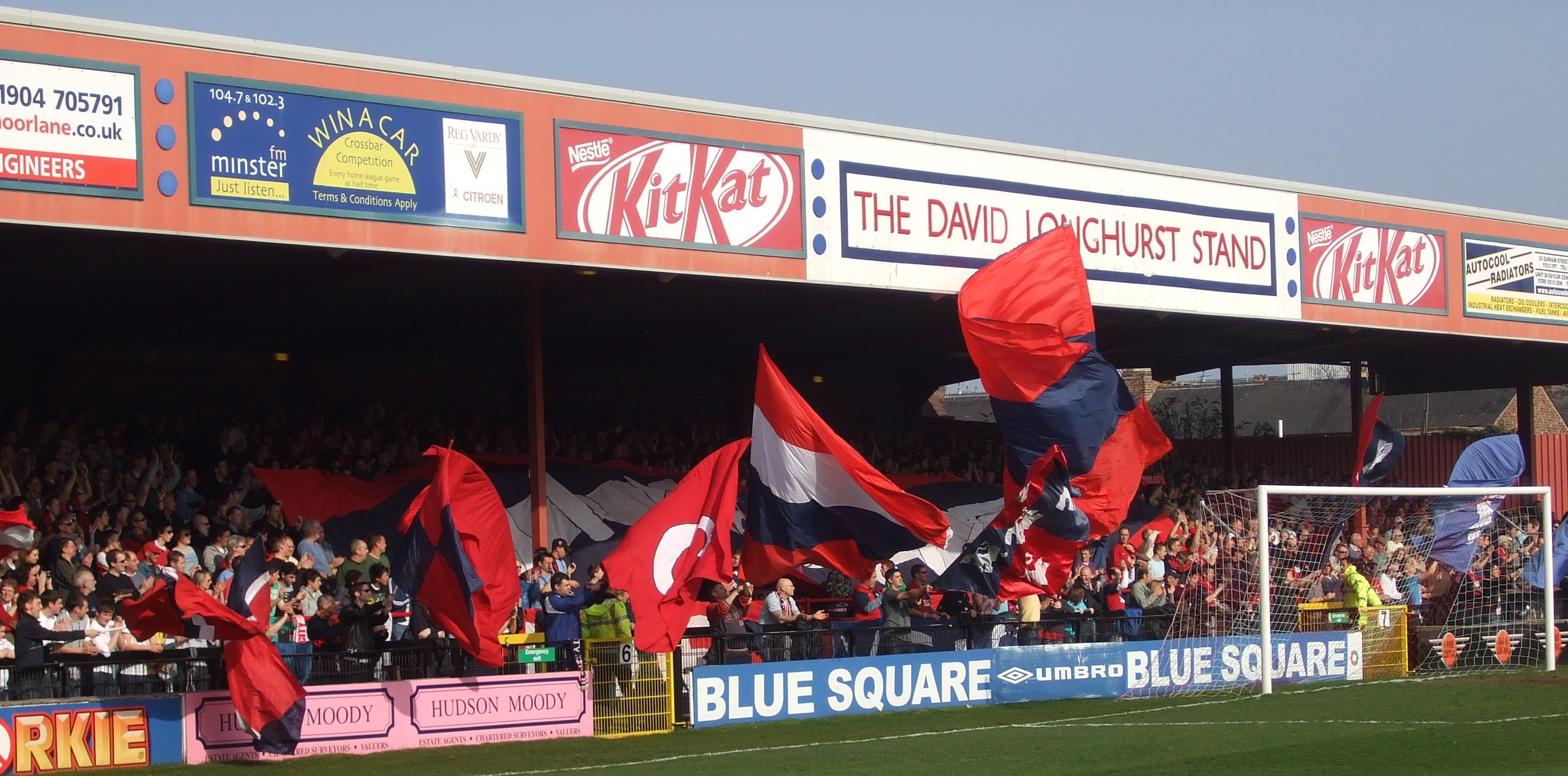 The David Longhurst Stand at Bootham Crescent, York, before a match between York City and AFC Telford United on 21 March 2009